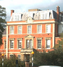 The main entrance of the Royal Buckinghamshire Hospital in Aylesbury, Buckinghamshire.